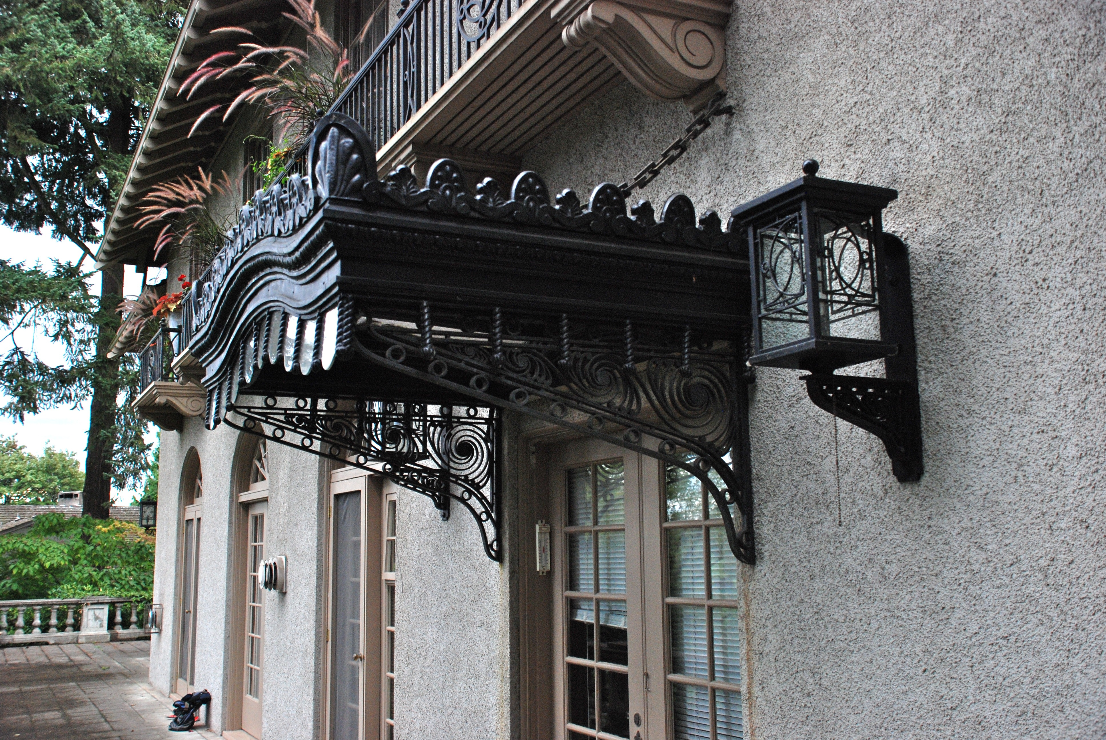 The Dr. A.E. and Phila Jane Rockey House, located in the Portland (Oregon) metropolitan area, in the unincorporated Riverwood area just south of the city of Portland, is listed on the U.S. National Register of Historic Places. This photo shows a doorway on the building's north side that originally was a main entrance to the house. It features this ornamental marquee, or entrance canopy, made of iron and glass.